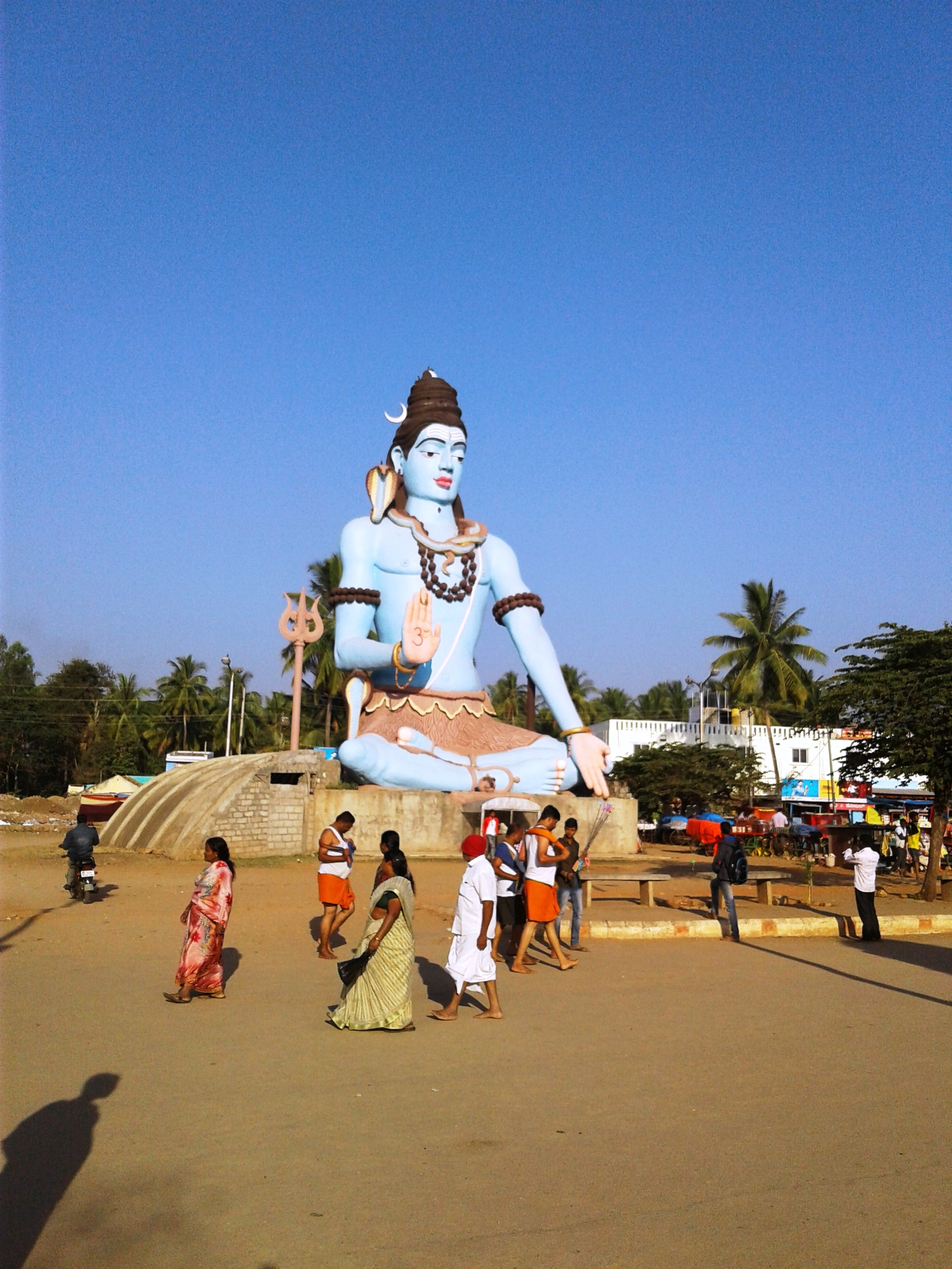 Nanjangud town, Mysore district, Karnataka state, India.